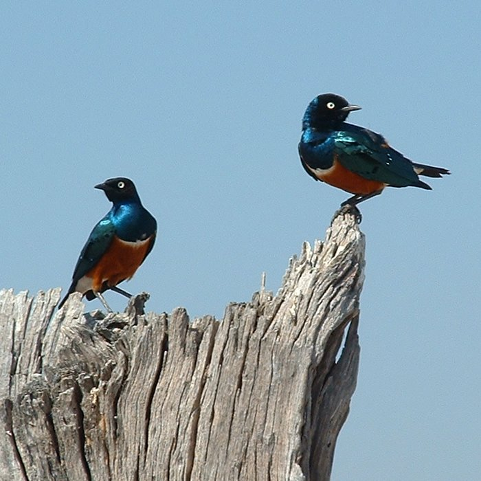 Two Superb Starling (Lamprotornis superbus) in Ruaha National Park. Photograph by myself 2006-7-27